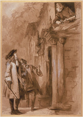 Scene from John Vanbrugh's The Relapse (1696) - Midnight alarm, with Fashion, Lory and Sir Tunbelly (3.3)